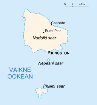 Map in Estonian of Norfolk Island.